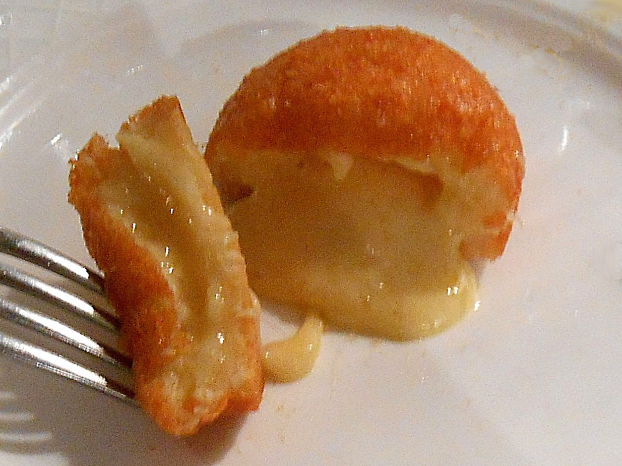 Malakoff cheese in a restaurant in the canton of Vaud.